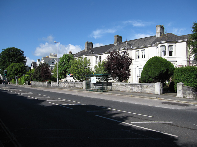 Mannamead Road Bus stop and some of the large houses along the road.